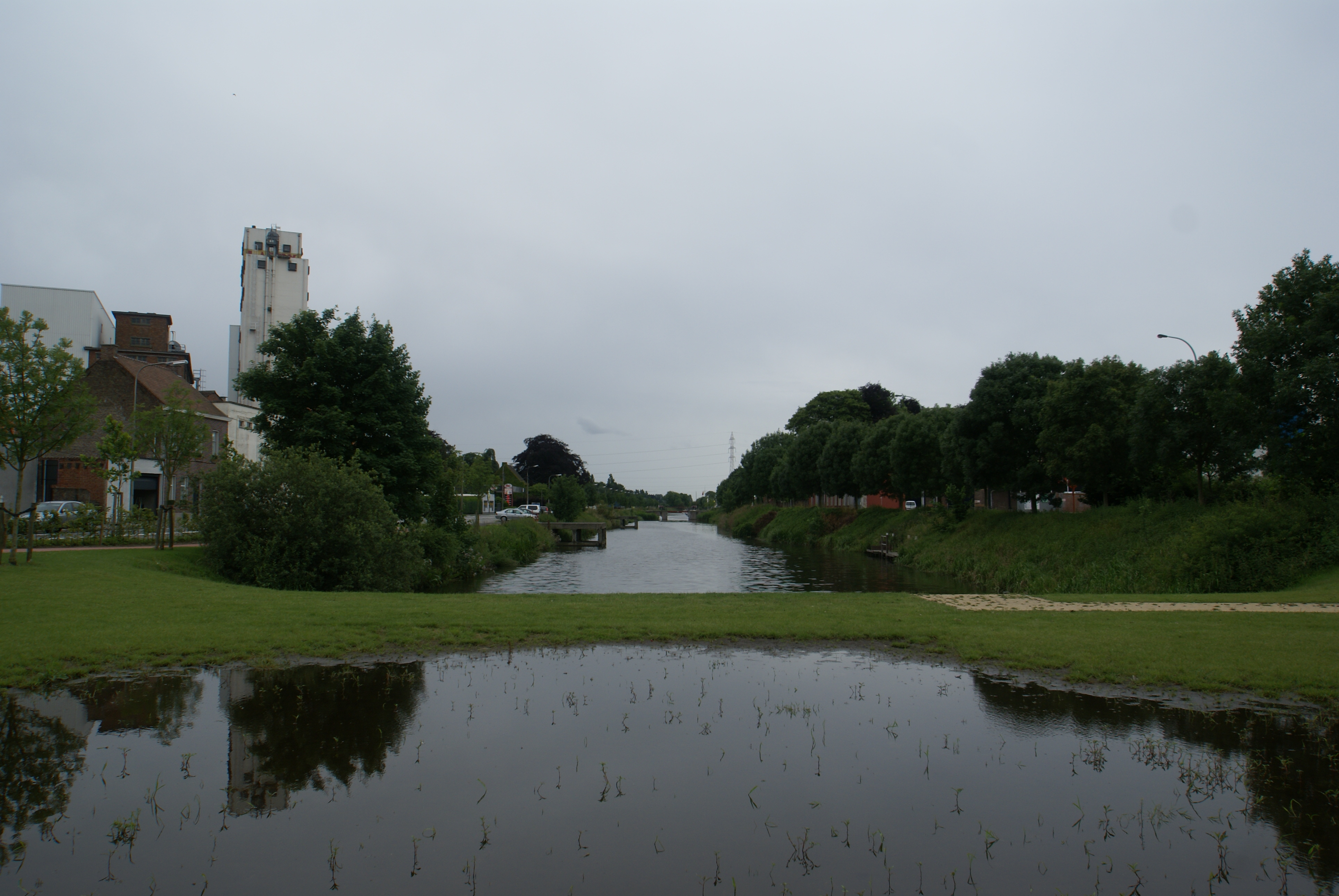 Eeklo (Belgium): canal Eeklose Vaart